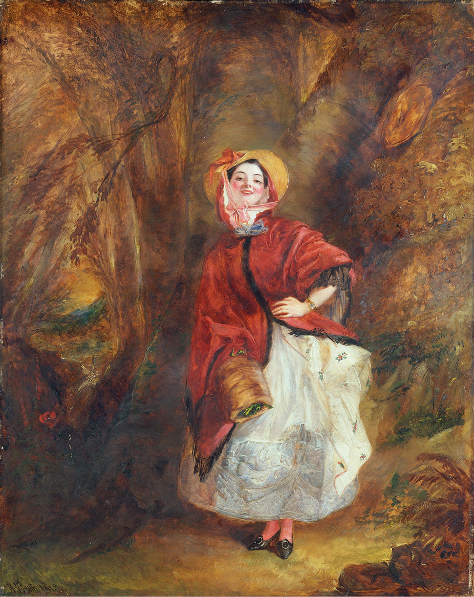 Oil painting depicting Dolly Varden, a character from Charles Dicken's book 'Barnaby Rudge'